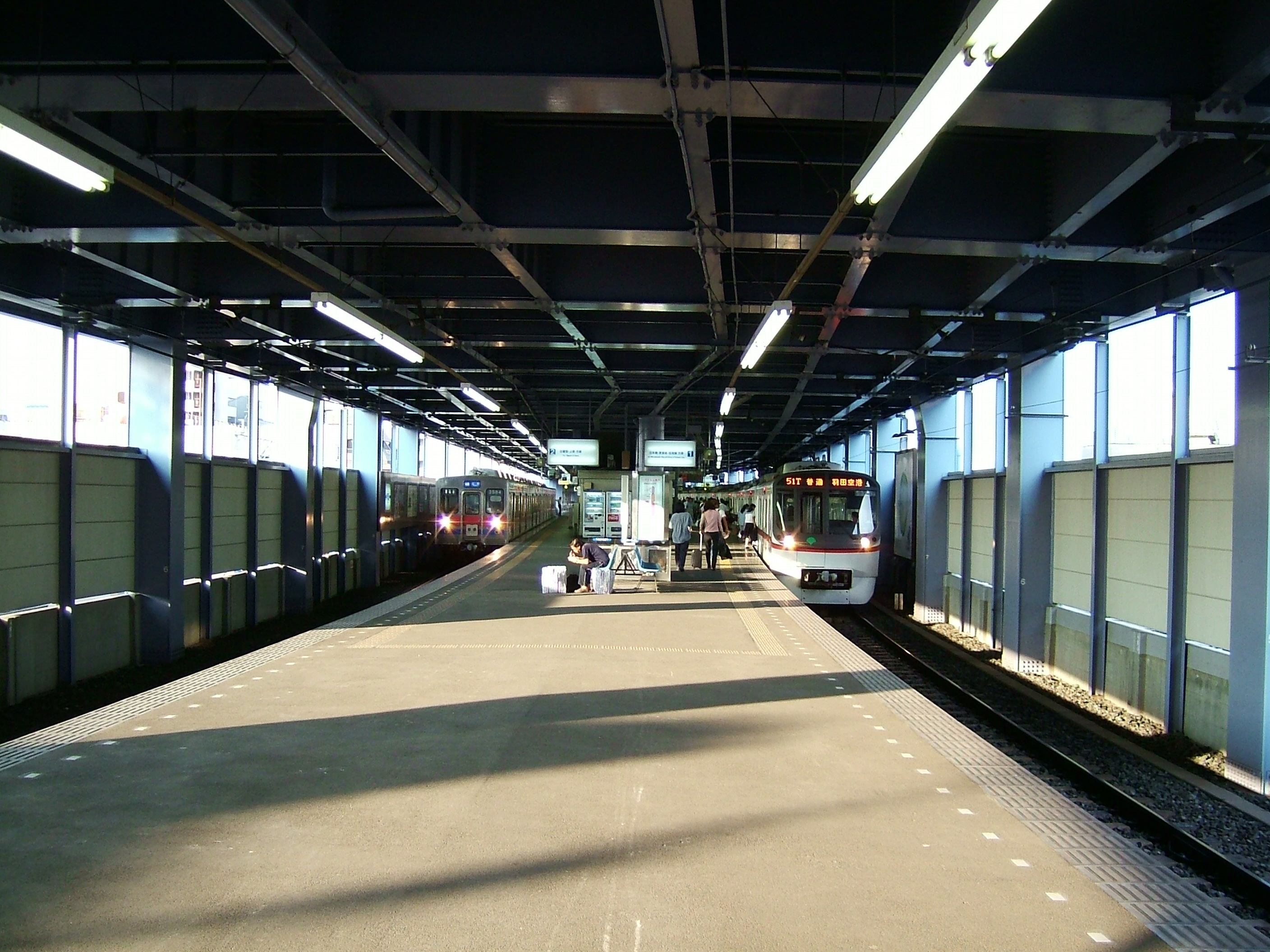 Keisei Main Line Aoto Station